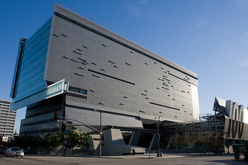 Caltrans District 7 Headquarters Building, by architecture firm Morphosis.